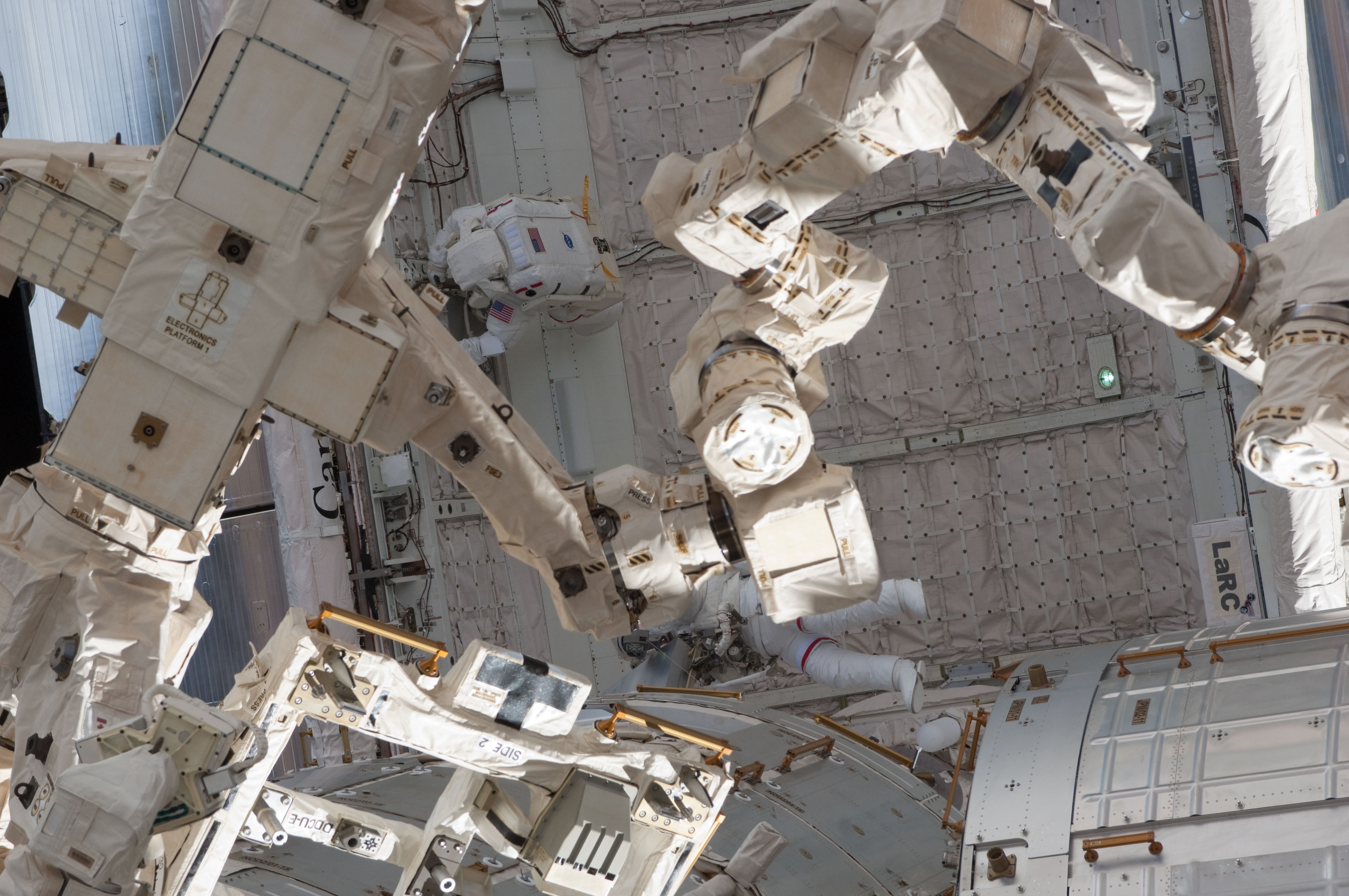 NASA astronauts Andrew Feustel (bottom) and Greg Chamitoff, both STS-134 mission specialists, participate in the mission's first session of extravehicular activity (EVA) as construction and maintenance continue on the International Space Station. During the six-hour, 19-minute spacewalk, Feustel and Chamitoff retrieved long-duration materials exposure experiments and installed another, installed a light on one of the station's rail line handcarts, made preparations for adding ammonia to a cooling loop and installed an antenna for the External Wireless Communication system.